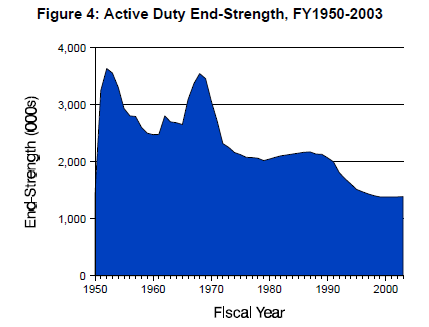 Graph of US military levels 1950-2003.